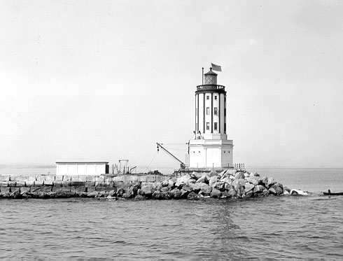 Public Domain statement here; Los Angeles Harbor Light, also known as lighthouse in California, United States, at San Pedro Breakwater in Los Angeles Harbor, California. The lighthouse is listed on the National Register of Historic Places. It is listed as Los Angeles Light in the USCG Lights list.